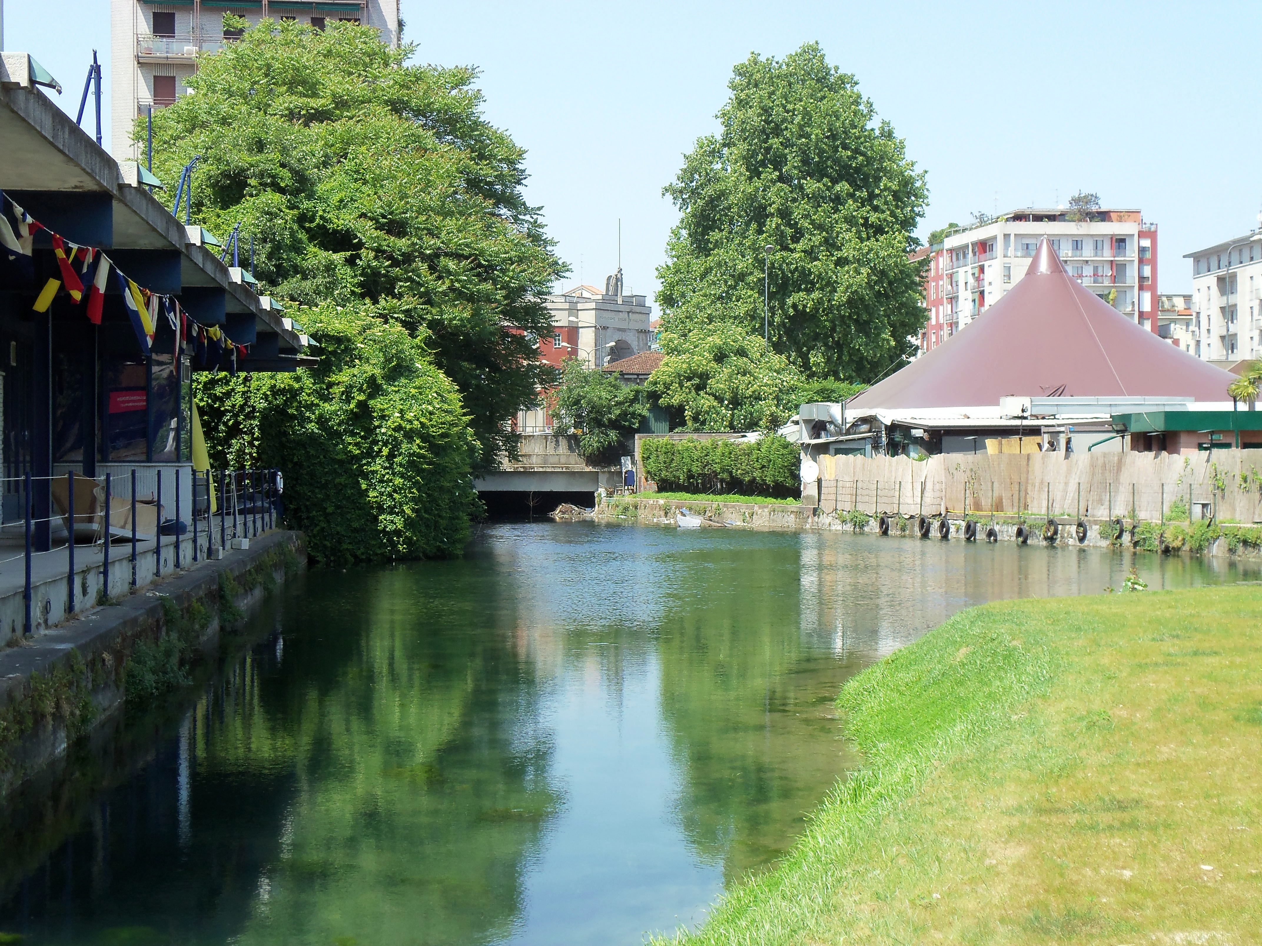 Milano, dardena: the northwest corner, insulated after 2010' works. In front, the ancient mouth of Olona river.